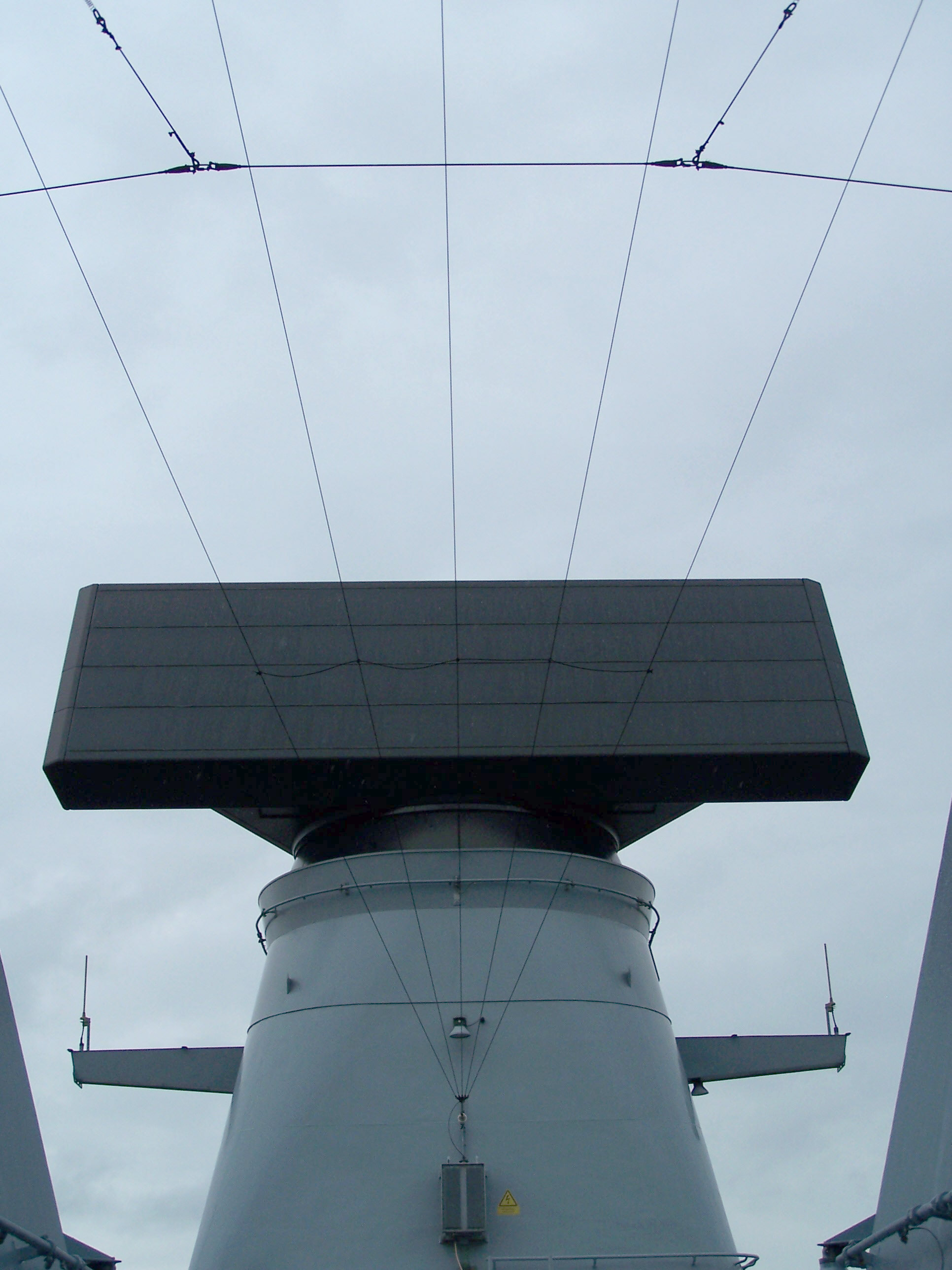 Picture taken at the Kiel Week 2007 onboard F221 Hessen of the German Navy